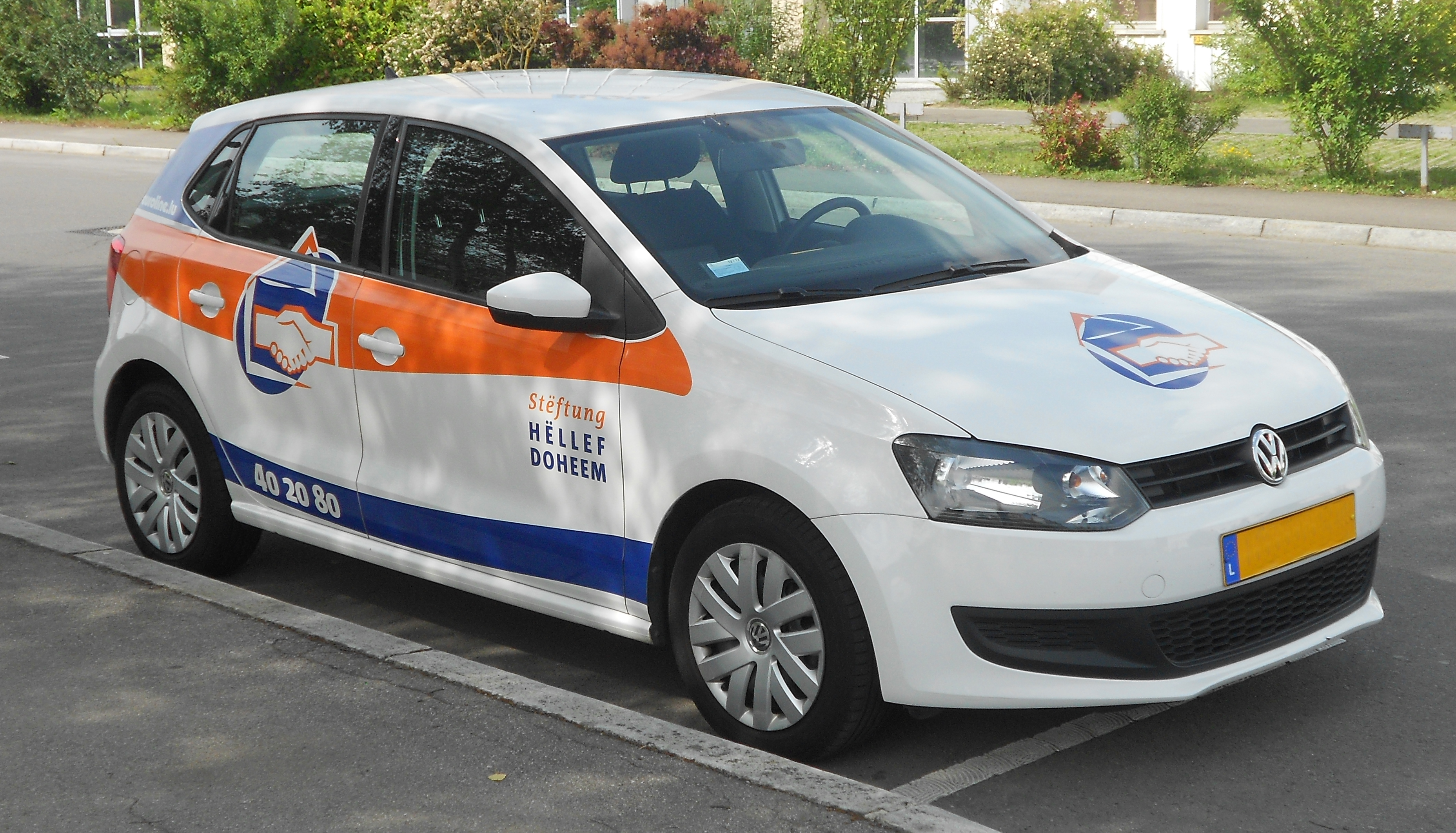 Car of the Luxembourgish Foundation Hëllef Doheem (Volkswagen)